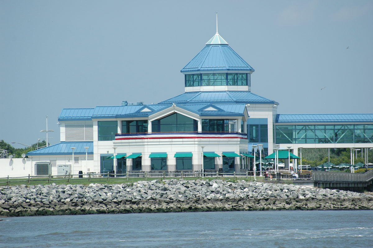 Cape May, New Jersey, terminal of the Cape May-Lewes Ferry, on July 4, 2005. Photo by Adam Gilson.